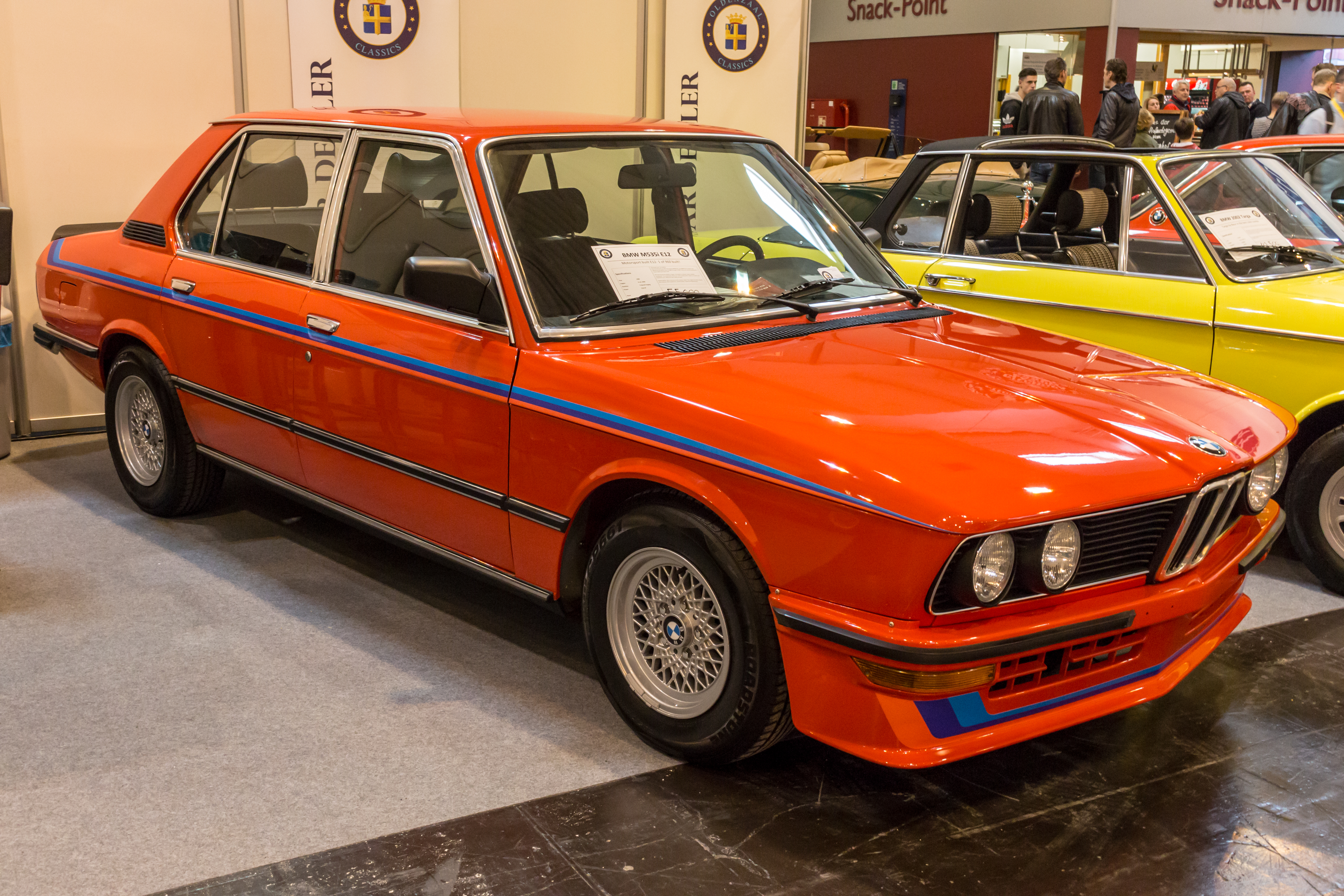 BMW, Techno-Classica 2018, Essen